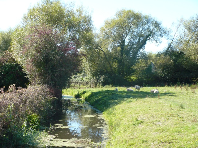 Sheep beside a reen A reen is a drainage ditch. This pastoral scene is about a mile from a power station ST3283, a steel works ST3384 and a port and chemical works ST3385.